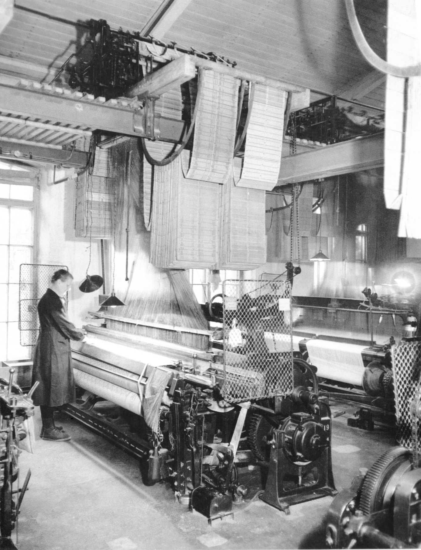 Photograph of a damask waving machine Jacquard at Tampella factory, Tampere, Finland.